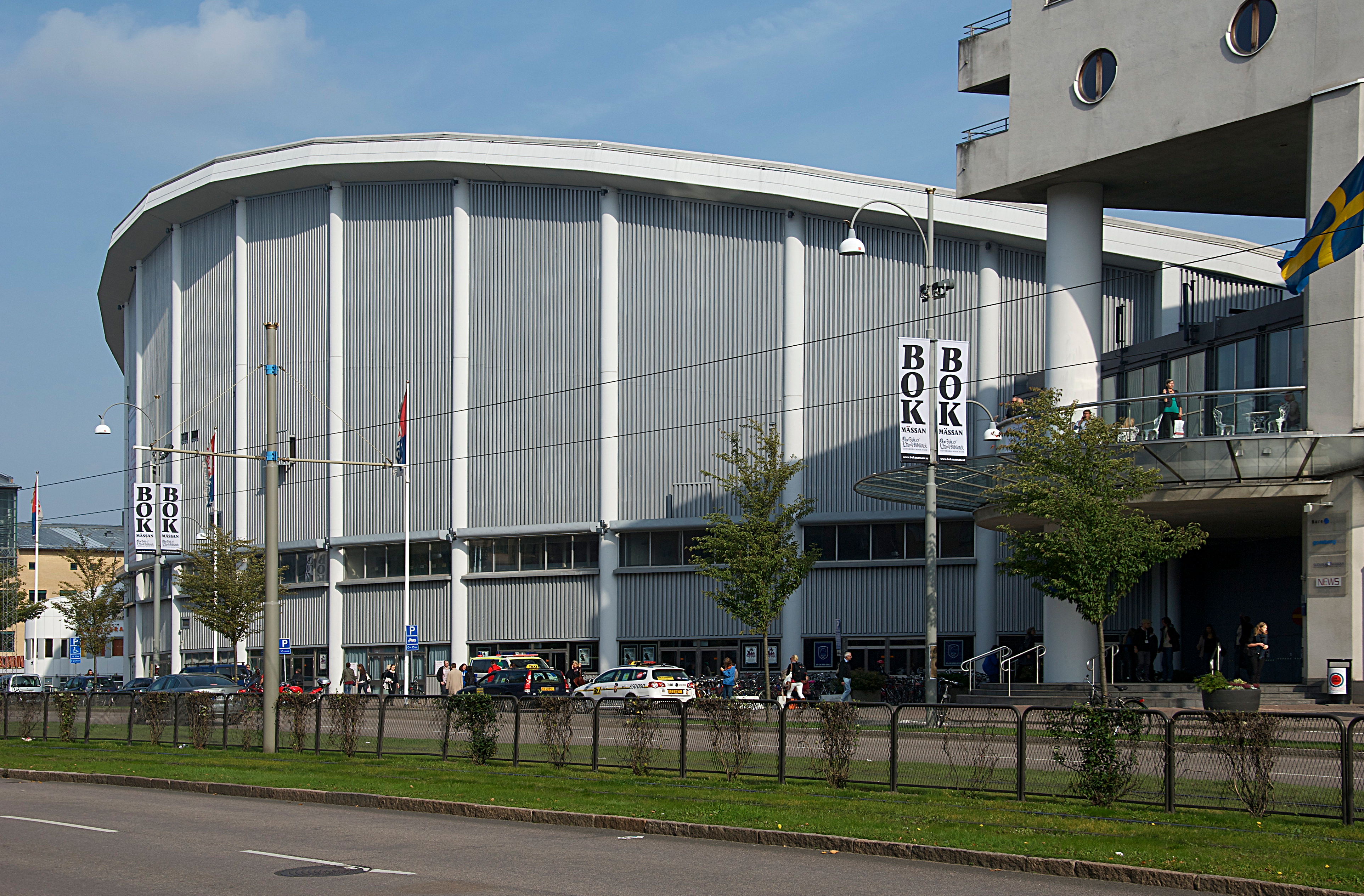 Scandinavium, Gothenburg.